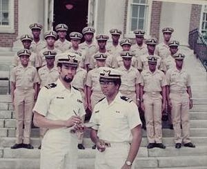 In July 1972, LT London Steverson became the chief of the newly formed Minority Recruiting Section in the Washington, D.C. During his assignment as Chief of the Minority Recruiting Section he led the largest minority officer recruiting effort (recorded at the time) by recruiting more than 50 minority Coast Guard Academy cadets in a two-year period from 1973 to 1974.